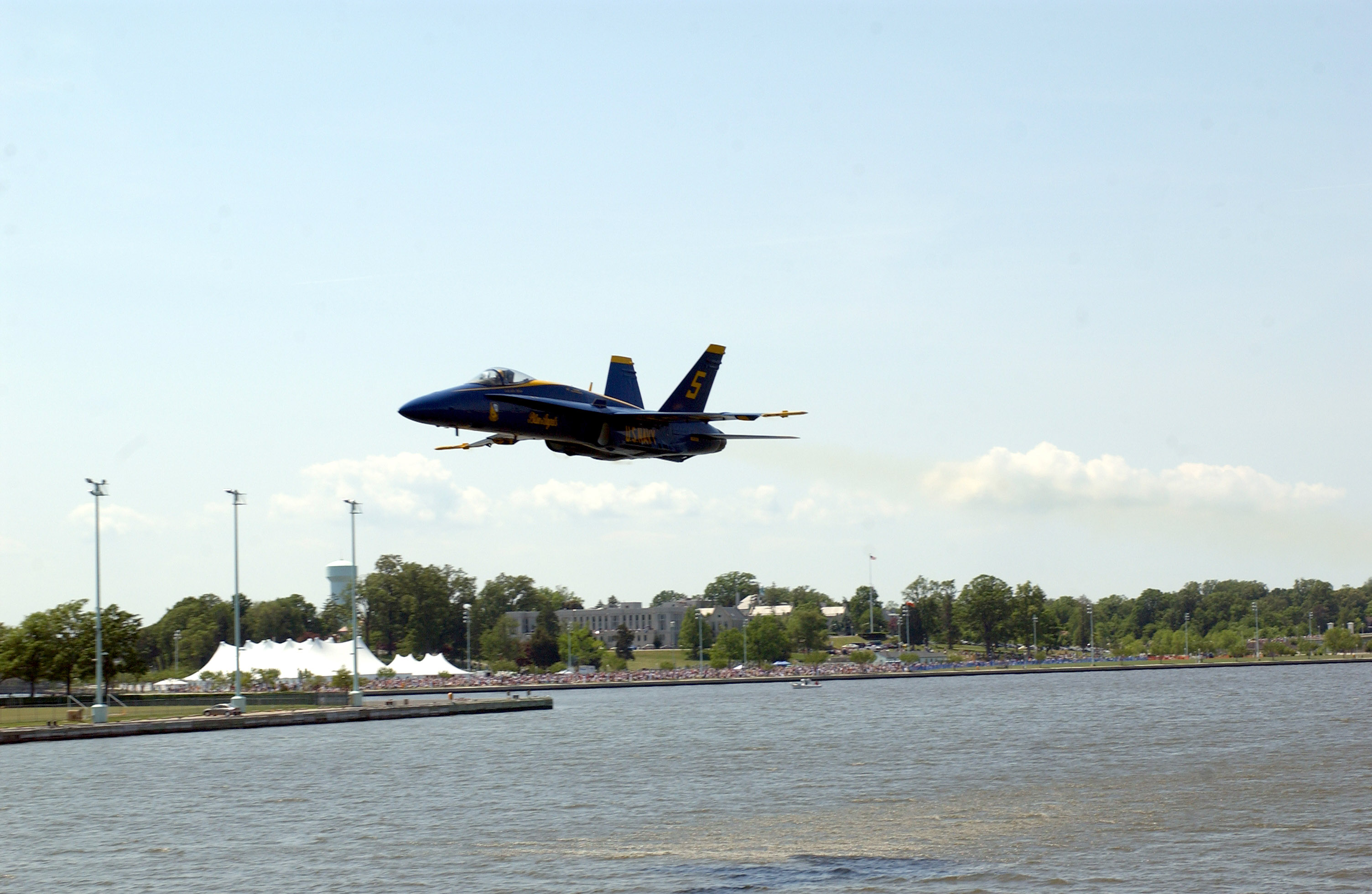 ANNAPOLIS, Md., (May 23, 2007) - Blue Angel #5 performs a sneak pass just below the speed of sound along the Severn River in Annapolis, Md. Their performance was one of a series of events leading up the graduation and commissioning of the Naval Academy Class of 2007. Other special events included performances from the Marine Barracks Washington Silent Drill Platoon and the U.S. Naval Academy Pipes and Drums. U.S. Navy photo by Mass Communication Specialist Seaman Michael Croft (RELEASED)